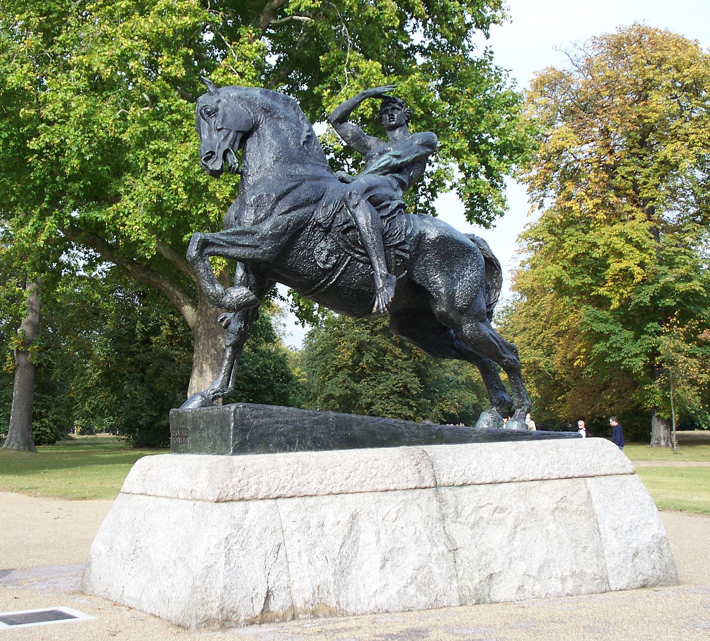 "Physical Energy", George Frederic Watts